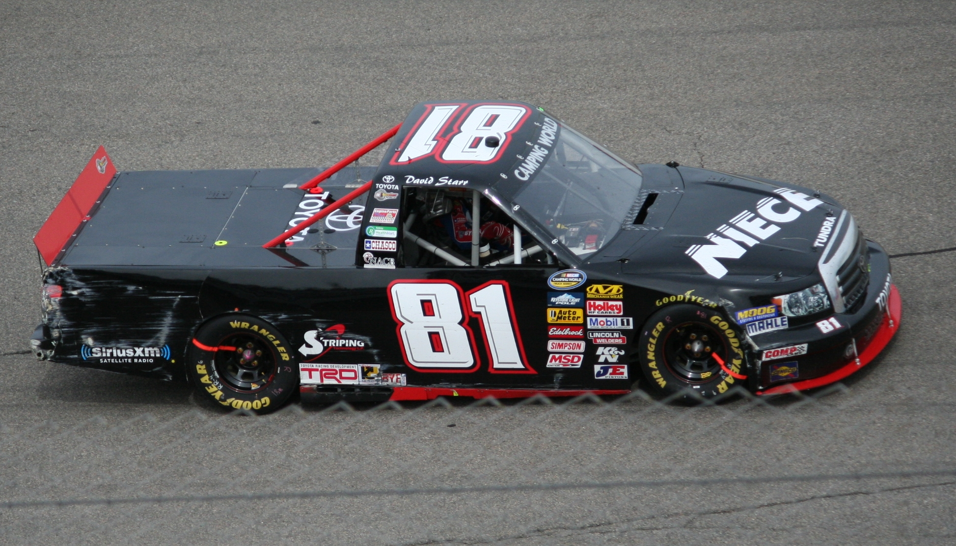 David Starr drives the No. 81 Niece Equipment Toyota during the North Carolina Education Lottery 200 at Rockingham Speedway, Rockingham, NC, April 14, 2013